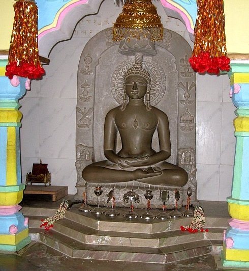 Bilahari Adinath image with Ashtamangala